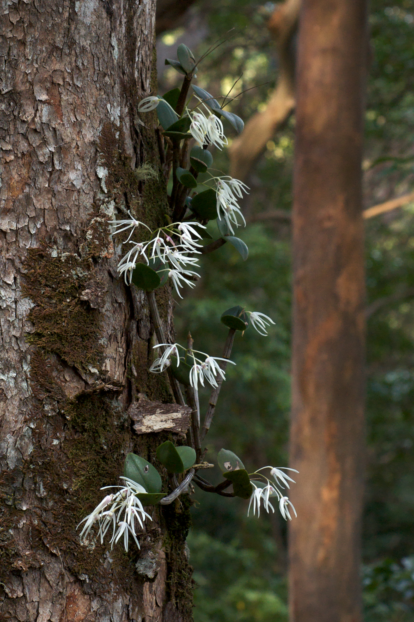 Dendrobium aemulum from Australia Lamington National Park, Queensland, Australia